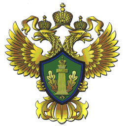 Logo of the Russian Federation's Ministry of Natural Resources and Ecology.